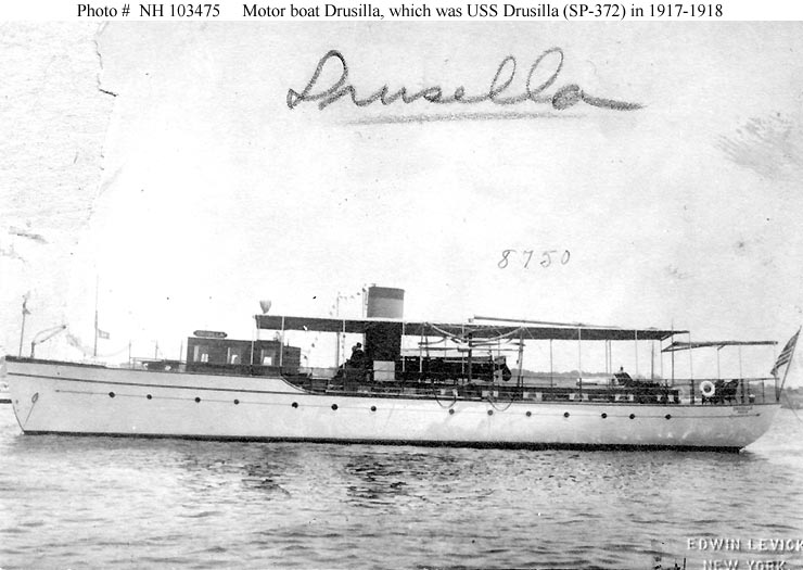 The private motorboat Drusilla prior to her United States Navy service as patrol vessel .